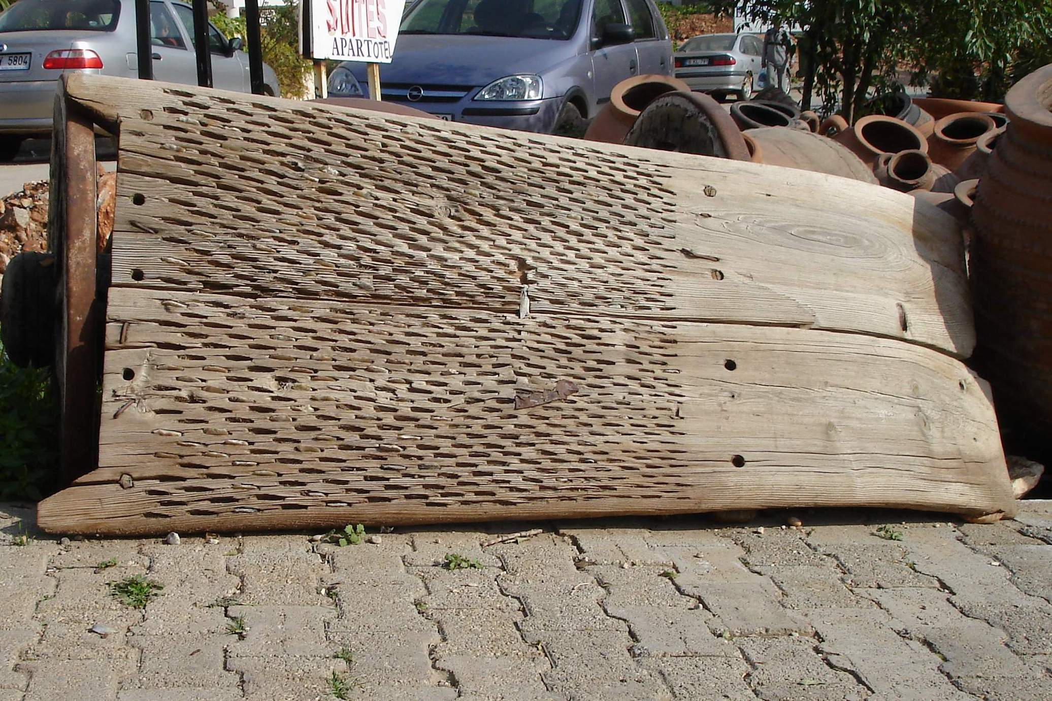 Threshing sled, used for removing wheat from its head before machines. (Turkiye)